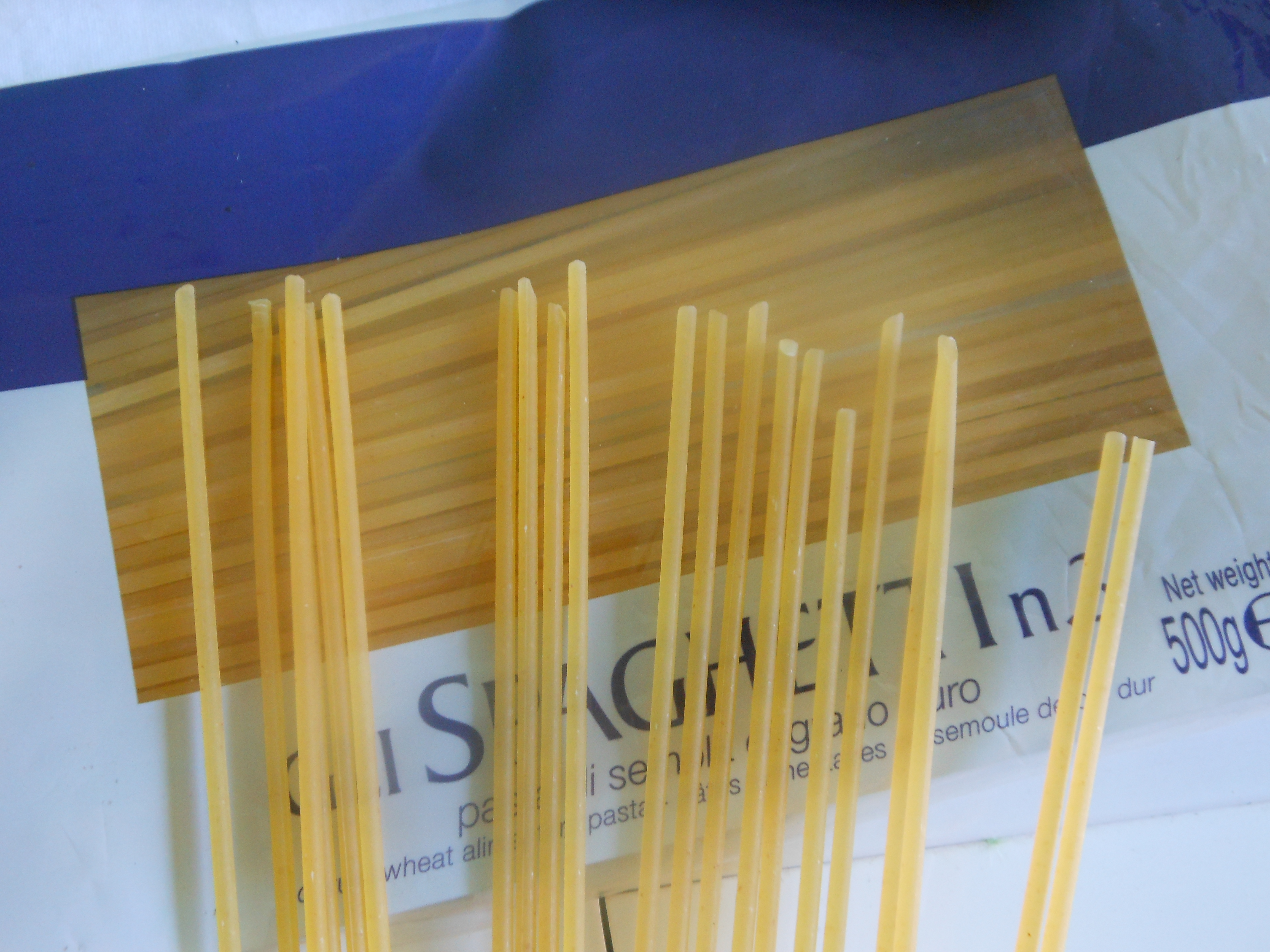 no.3 italy durumzemolina